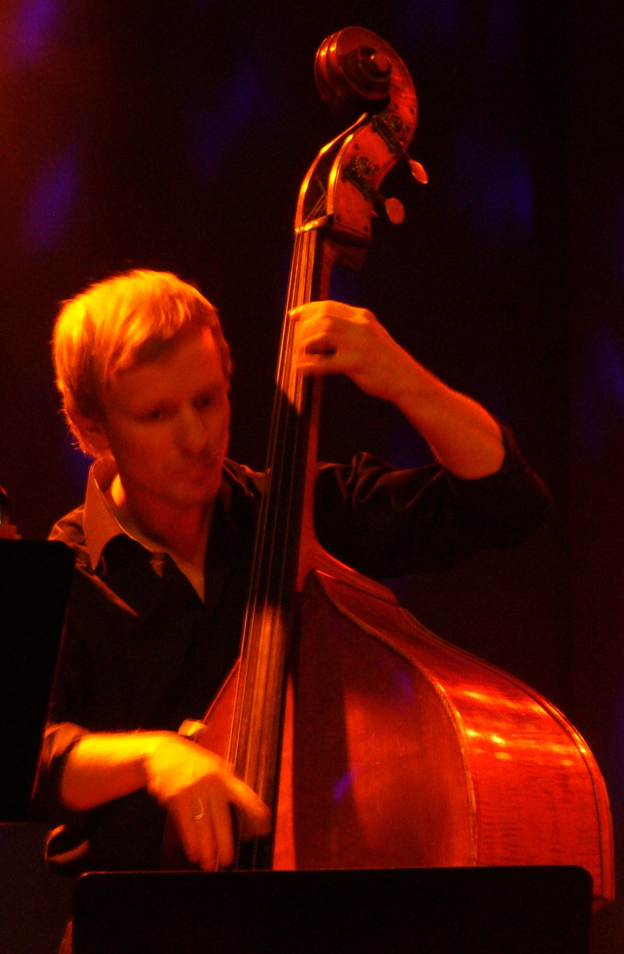 Sigurd Hole with Gisle Thorvik and Eple Trio at Vossajazz 2014